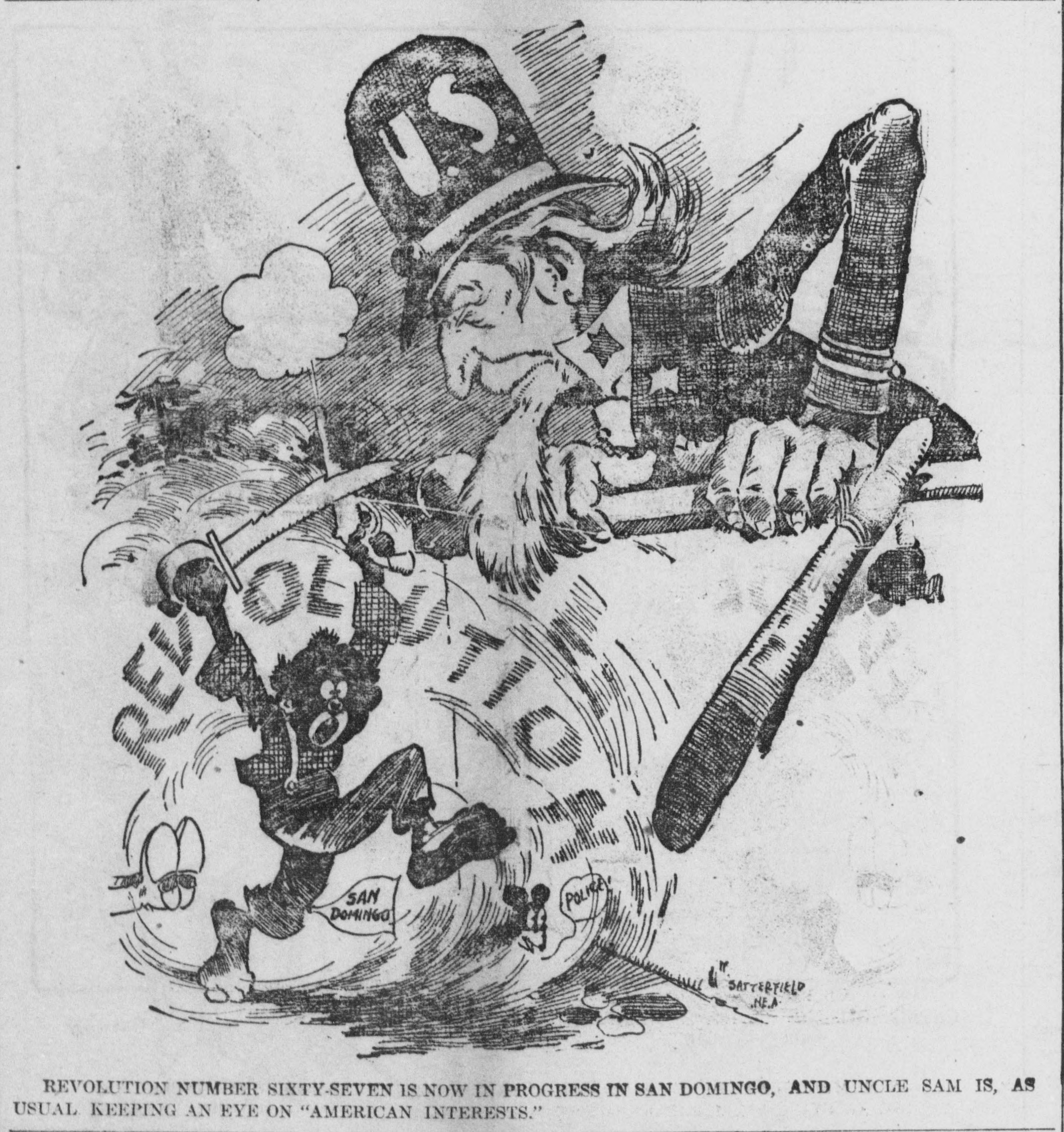 1904 political cartoon by Bob Satterfield. Uncle Sam (wearing a policeman's helmet, uniform, and badge, and holding a billy-club) watches as the personification of Santo Domingo (a barefoot stereotypical "darkey" caricature, wielding a sword and a pistol) revolves his arms and legs -- that is, undergoes a revolution. A pair of boots is to the bottom left of "San Domingo", possibly representing a corpse of someone killed in the revolution. To bottom right, Satterfield's bear mascot cries "Police!". Original caption: REVOLUTION NUMBER SIXTY-SEVEN IS NOW IN PROGRESS IN SAN DOMINGO, AND UNCLE SAM IS, AS USUAL KEEPING AN EYE ON "AMERICAN INTERESTS".